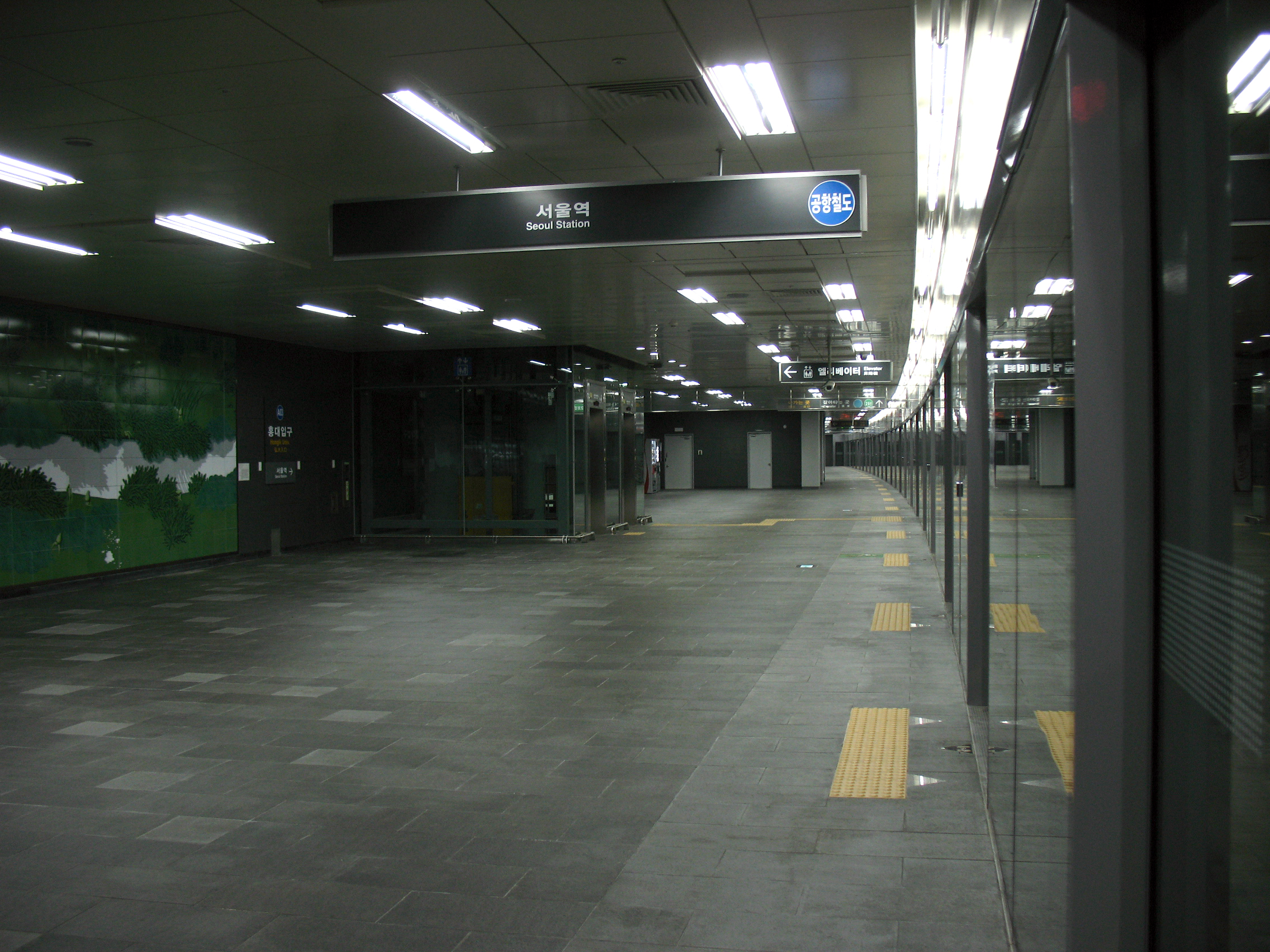 The platform of AREX Hongik University Station.